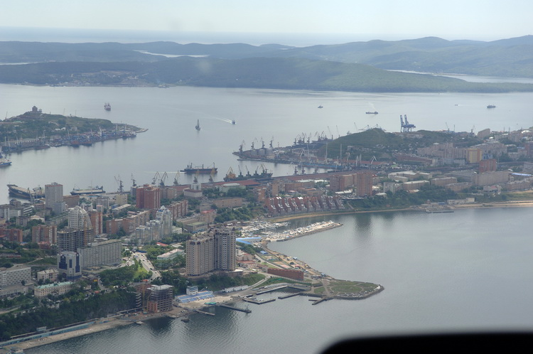 Zolotoy Rog, Eastern Bosphorus, Russky Island